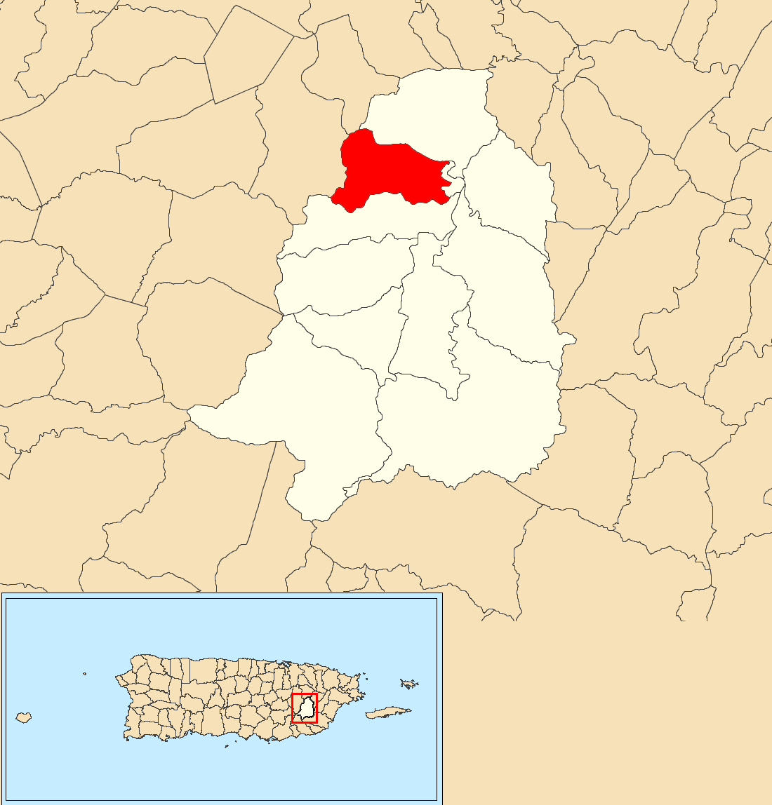 Hato, San Lorenzo, Puerto Rico locator map